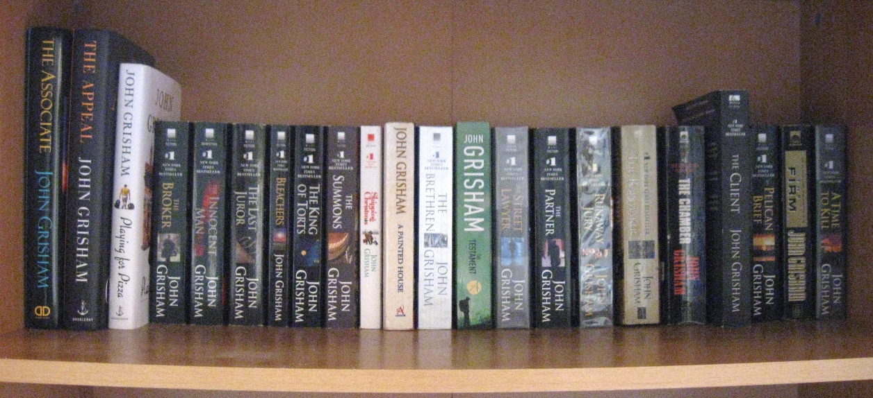 A complete collection of John Grisham novels (as of March 09)